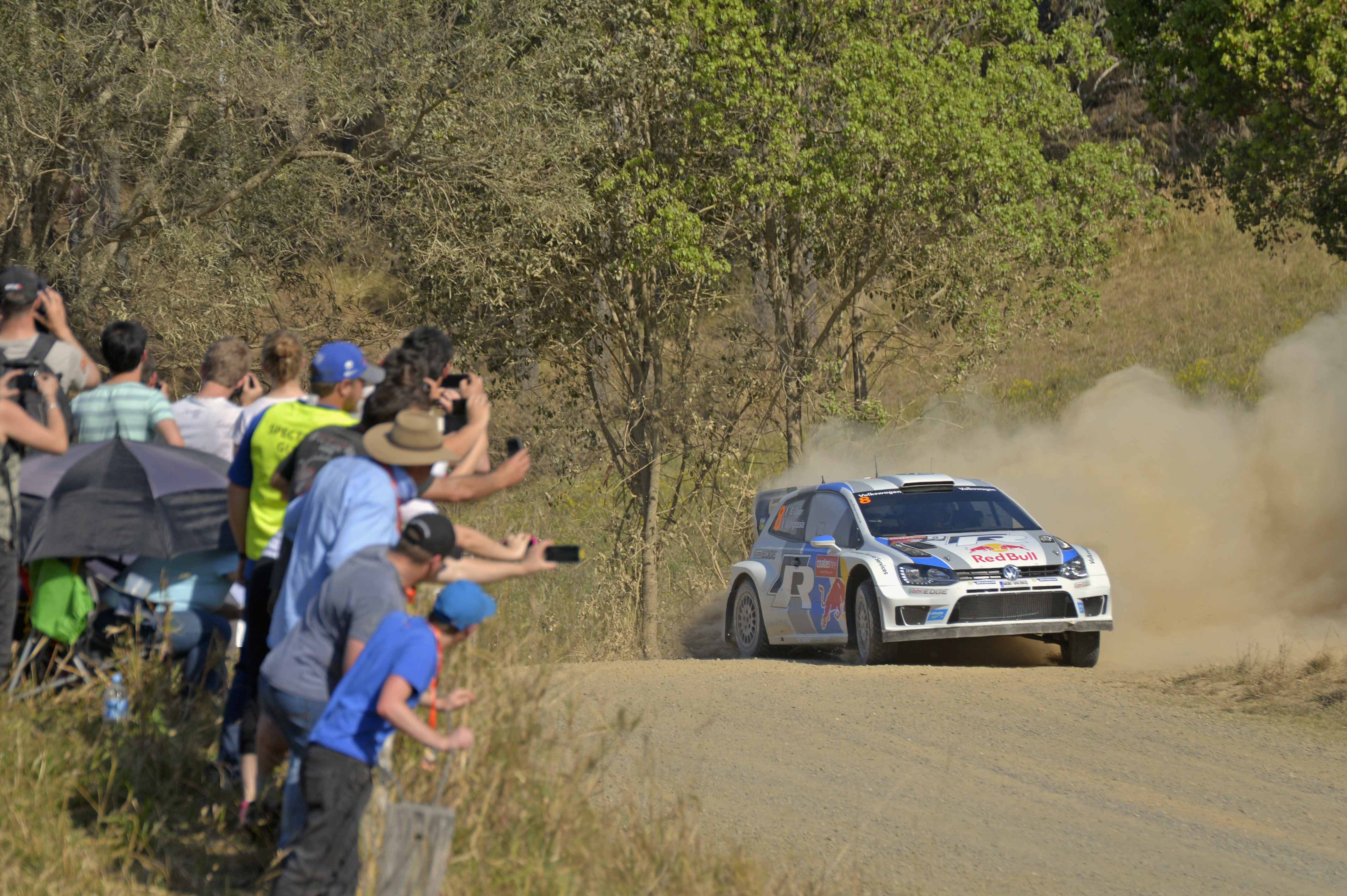 Sébastien Ogier and co-driver Julien Ingrassia in their VW Polo R WRC at the 2013 Rally Australia.